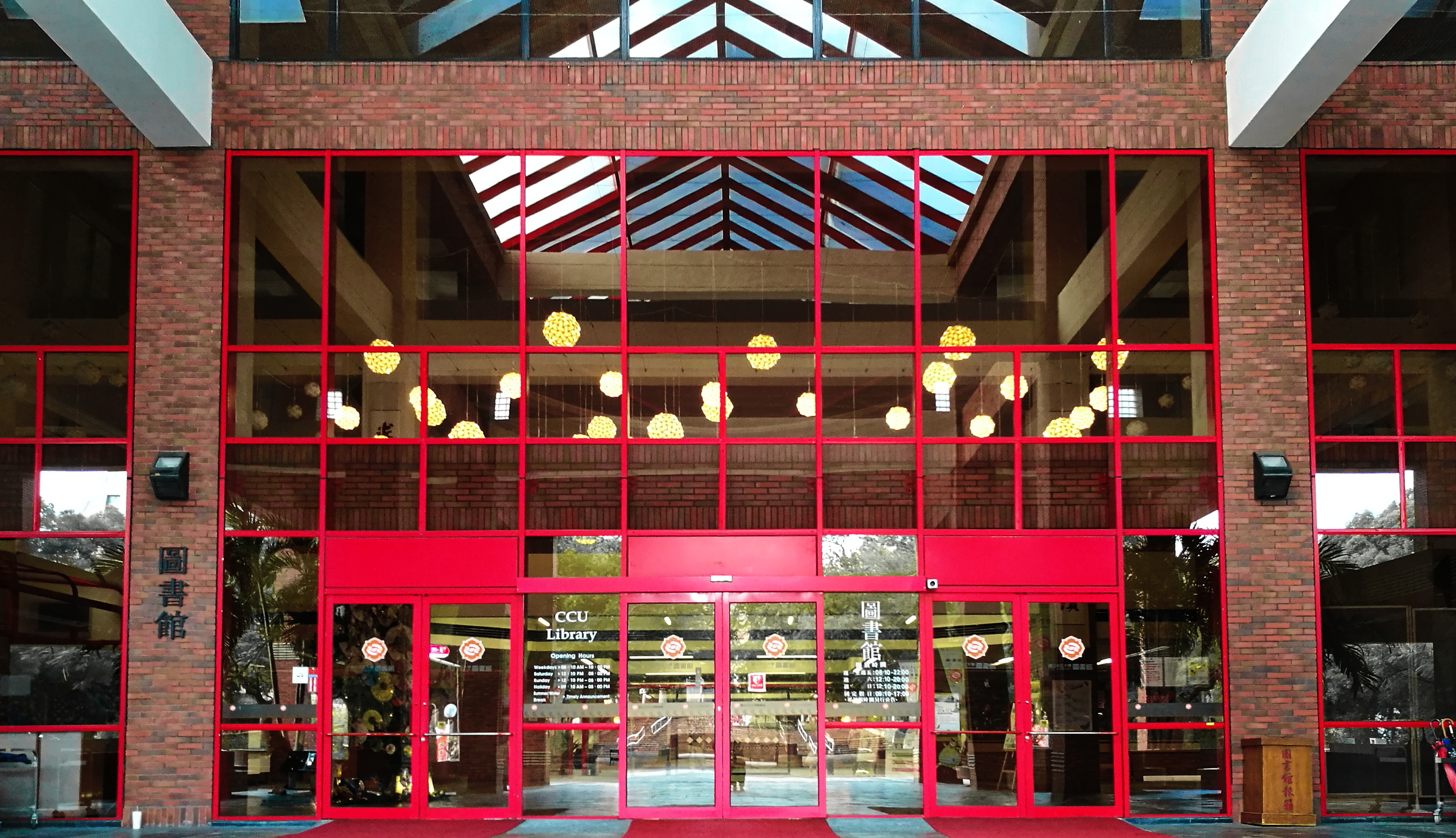 National Chung Cheng University, Main entrance of the library, Minxiong Township, Chiayi County, Taiwan.